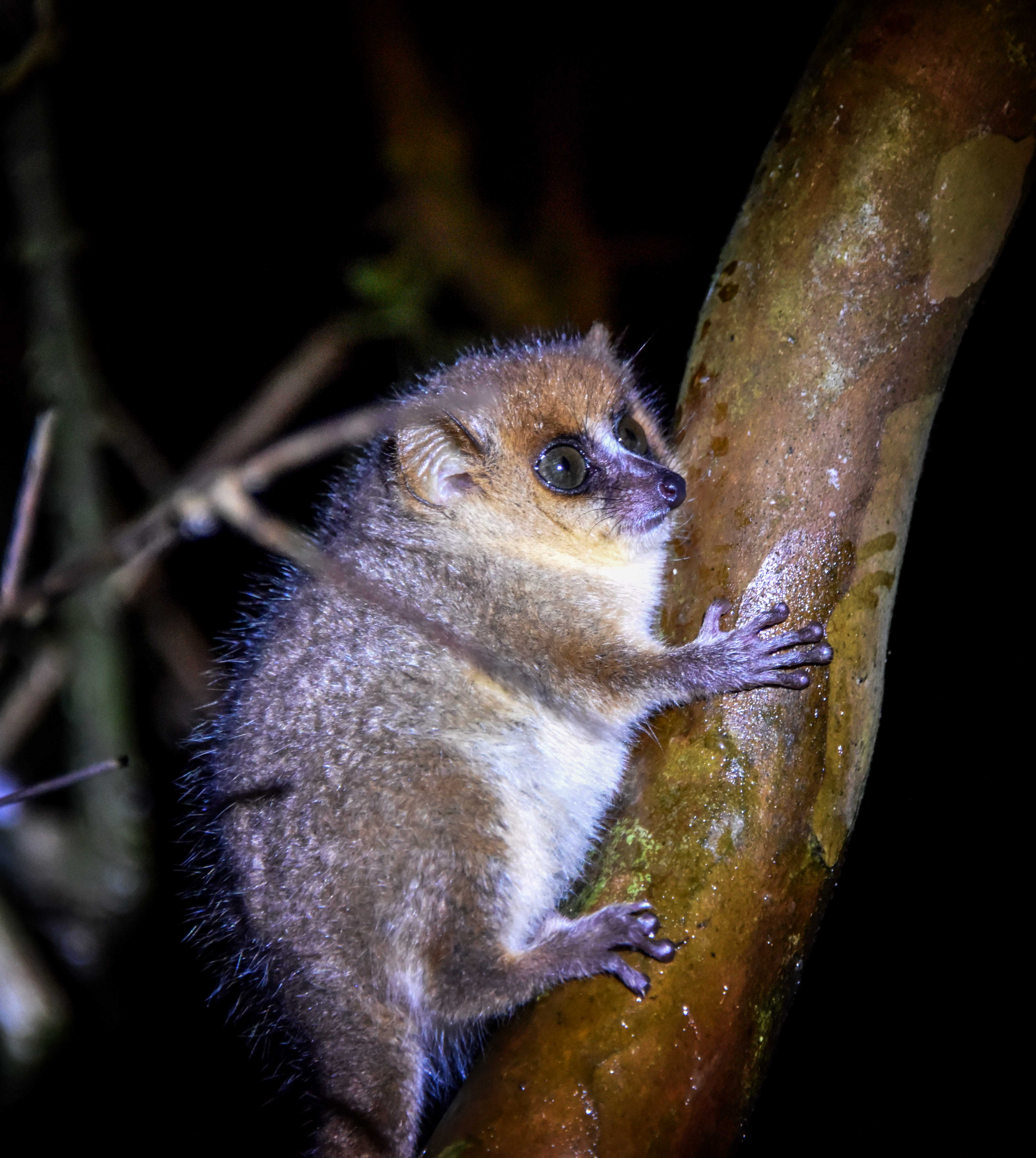 A mouse lemur photographed in Madagascar